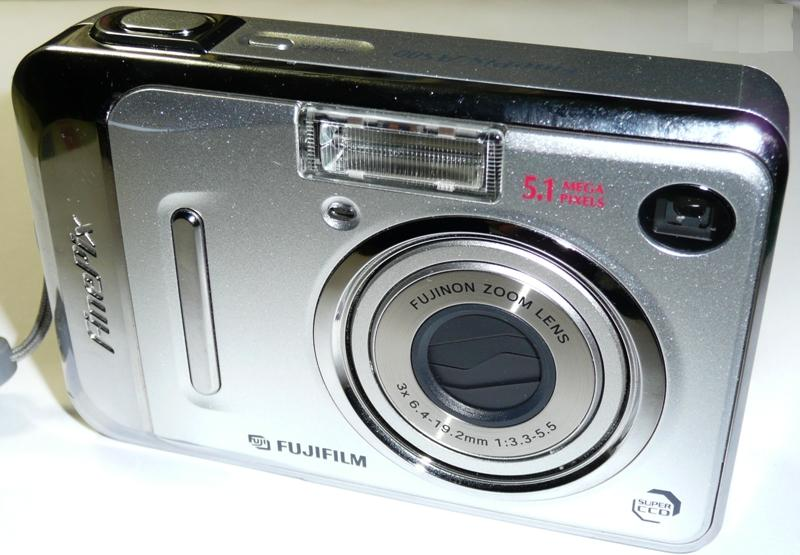 Fujifilm FinePix A500.